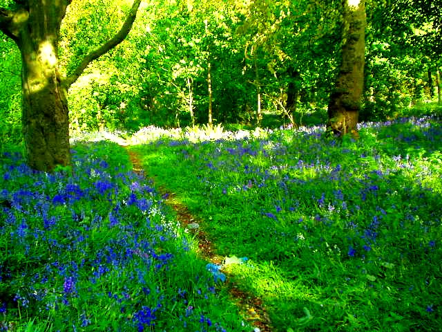 From my own collection